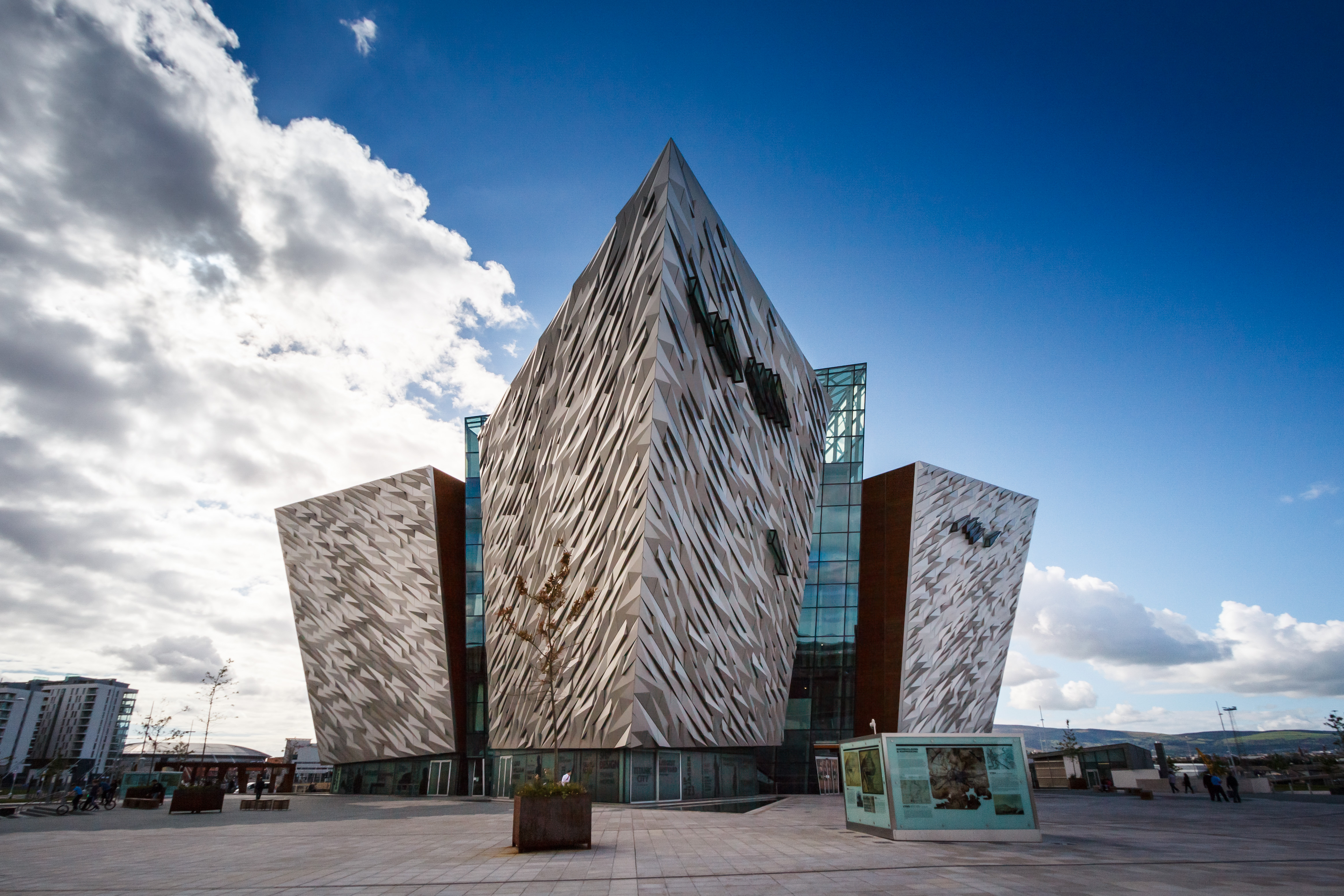 At the site where the Titanic (and its sister ships Olympic and Britannic) were built exactly 100 years ago, there is now a museum showing Belfast's history of industrialization, shipbuilding and, of course, the Titanic and its demise.